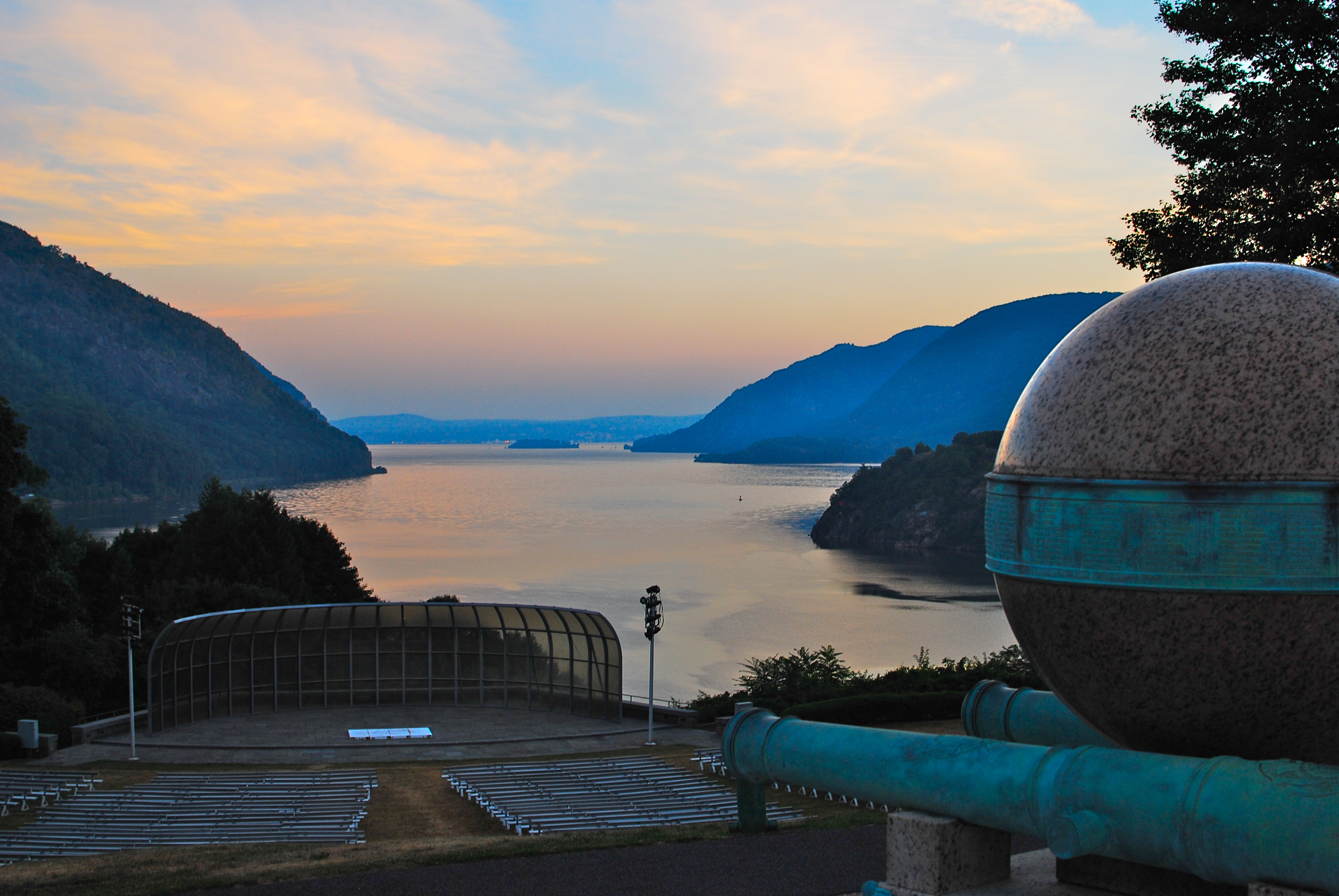 View of the Hudson River from Trophy Point, on the grounds of the United States Military Academy, West Point, NY, summer 2010